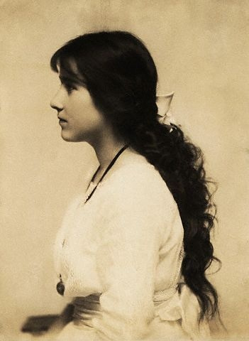 Elisabeth Bowes-Lyon